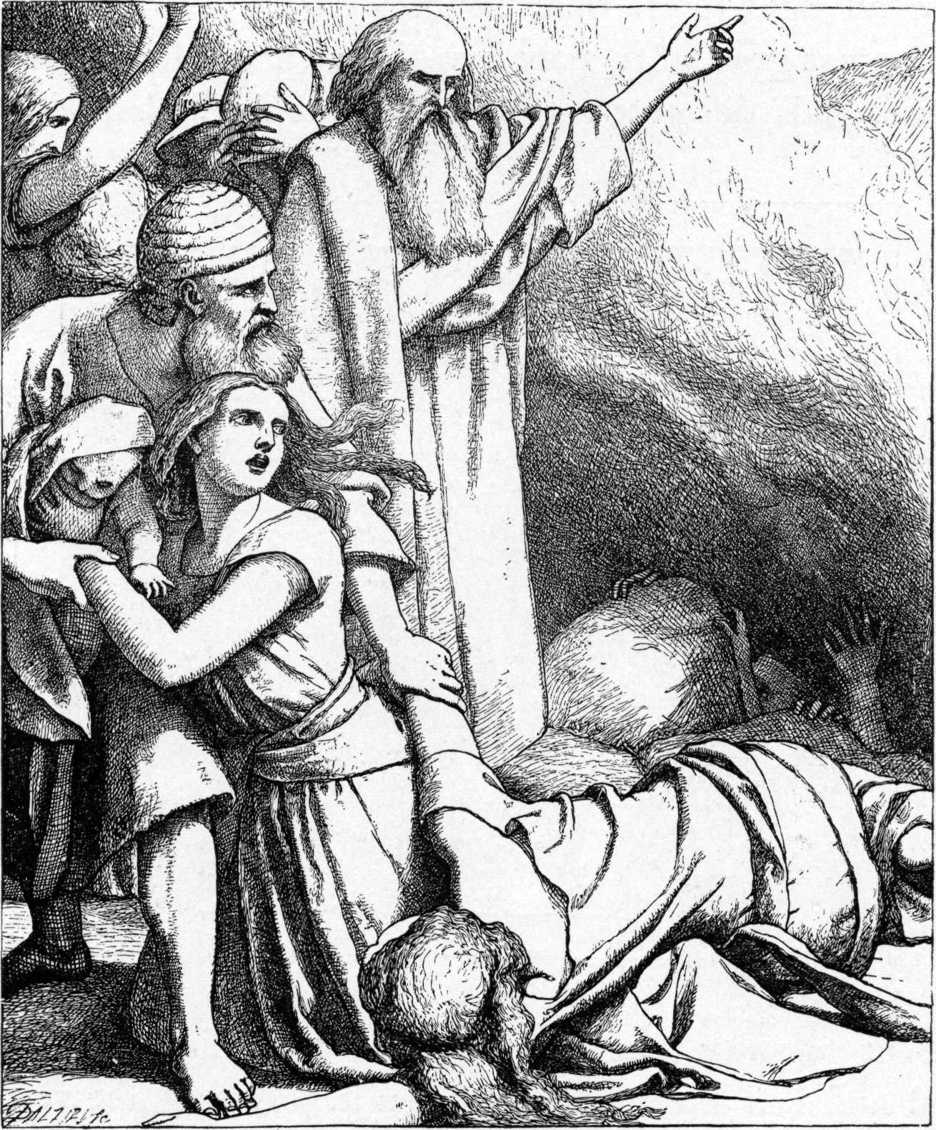 The Wicked Being Swallowed Up in the Ground. Caption: "These men and women are going down under the ground. The ground has opened, and it is swallowing them up. They have been wicked. They have not minded Moses and Aaron, and they have tried to keep all the rest of the people from minding them. Yet God told them they must mind Moses and Aaron. And now God is punishing them for their sin. While some of the wicked men are being swallowed up in the ground, the rest are being burned in the fire that God has sent. Moses is standing and speaking to the people about them." Illustration from the 1897 Bible Pictures and What They Teach Us: Containing 400 Illustrations from the Old and New Testaments: With brief descriptions by Charles Foster